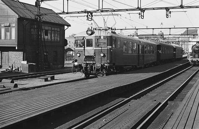 Norges Statsbaner type 65 electric multiple unit at Oslo Østbanestasjon, Norway.